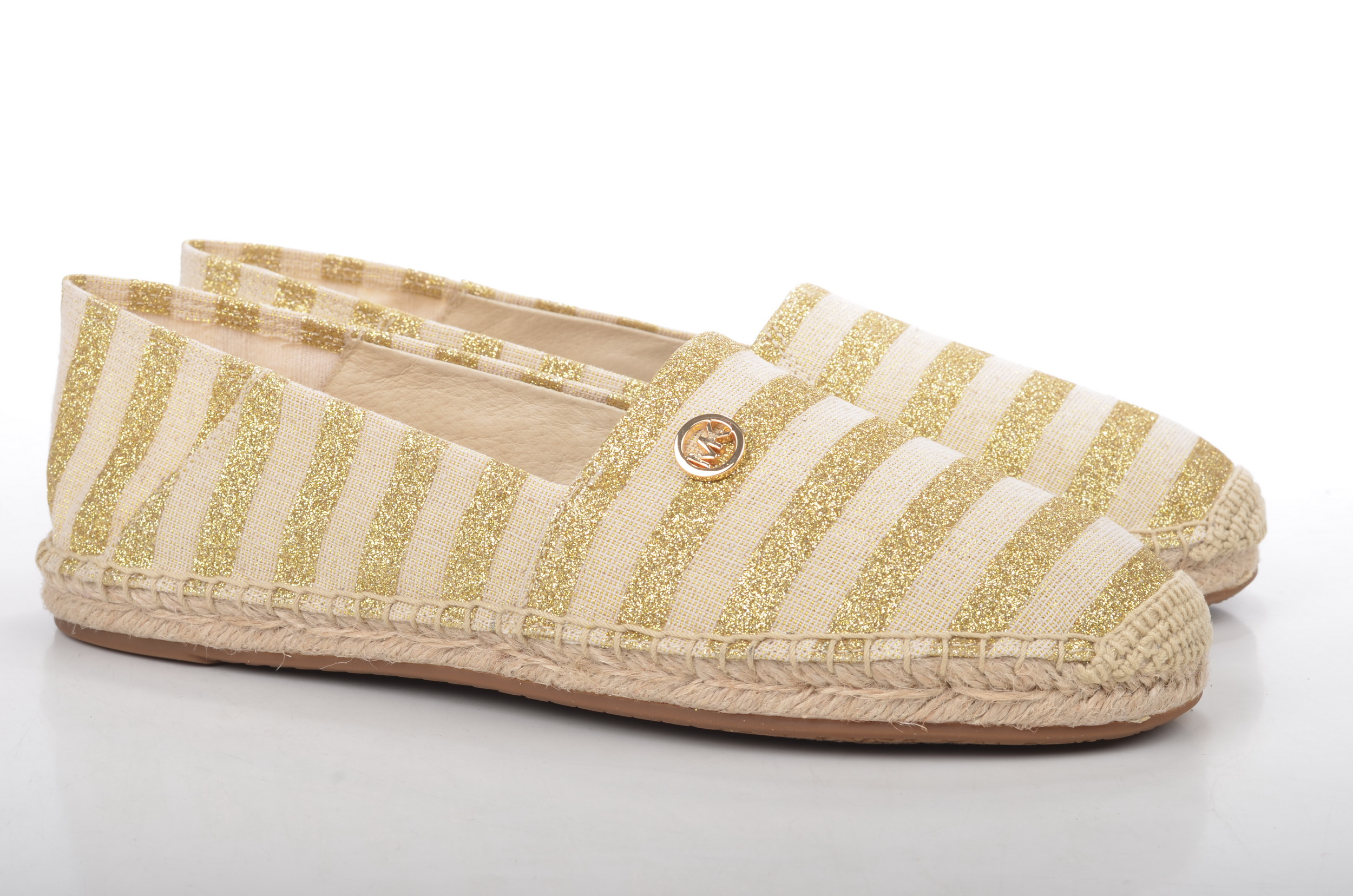 Details: Free to use, just give credit and mention SPERA and link to